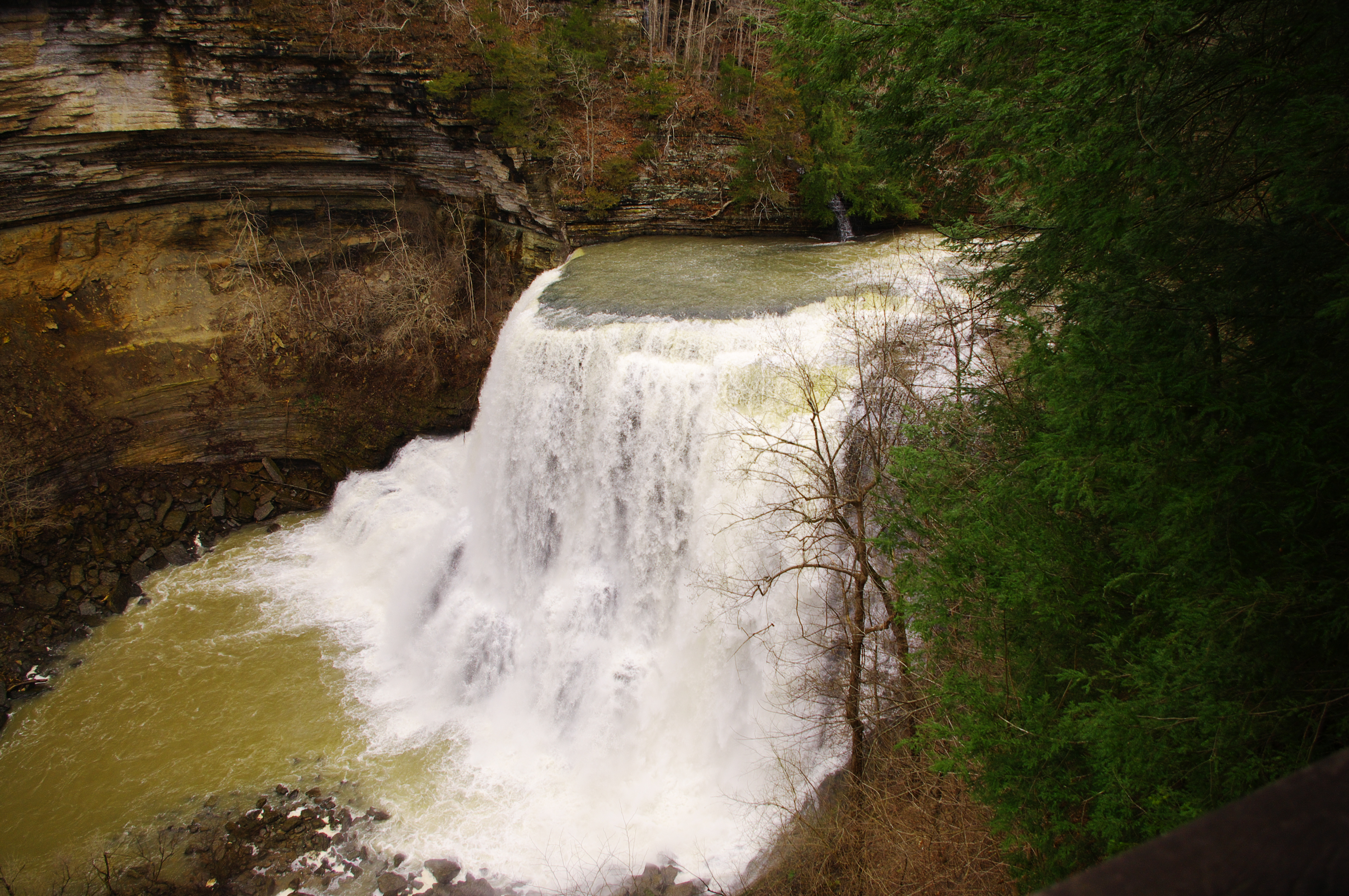 Burgess Falls, along the Falling Water River at Burgess Falls State Park in Putnam County, Tennessee.